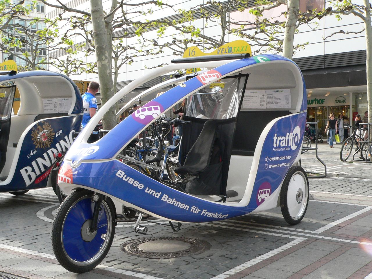 Frankfurt, Germany: Velotaxi